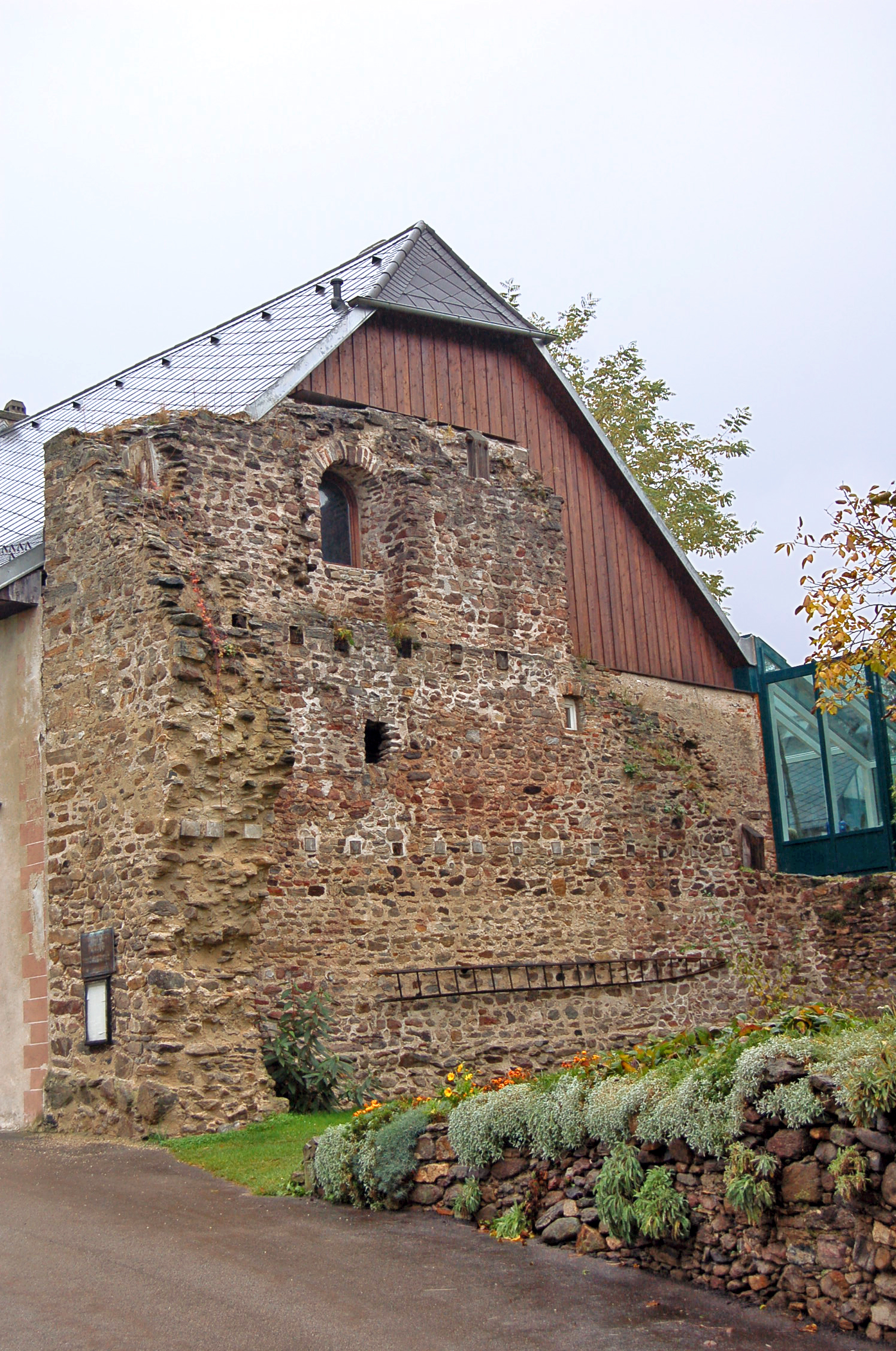 Remains of a 4th century Roman watchtower in Bacharnsdorf, Lower Austria, which were partly used for a newer building.